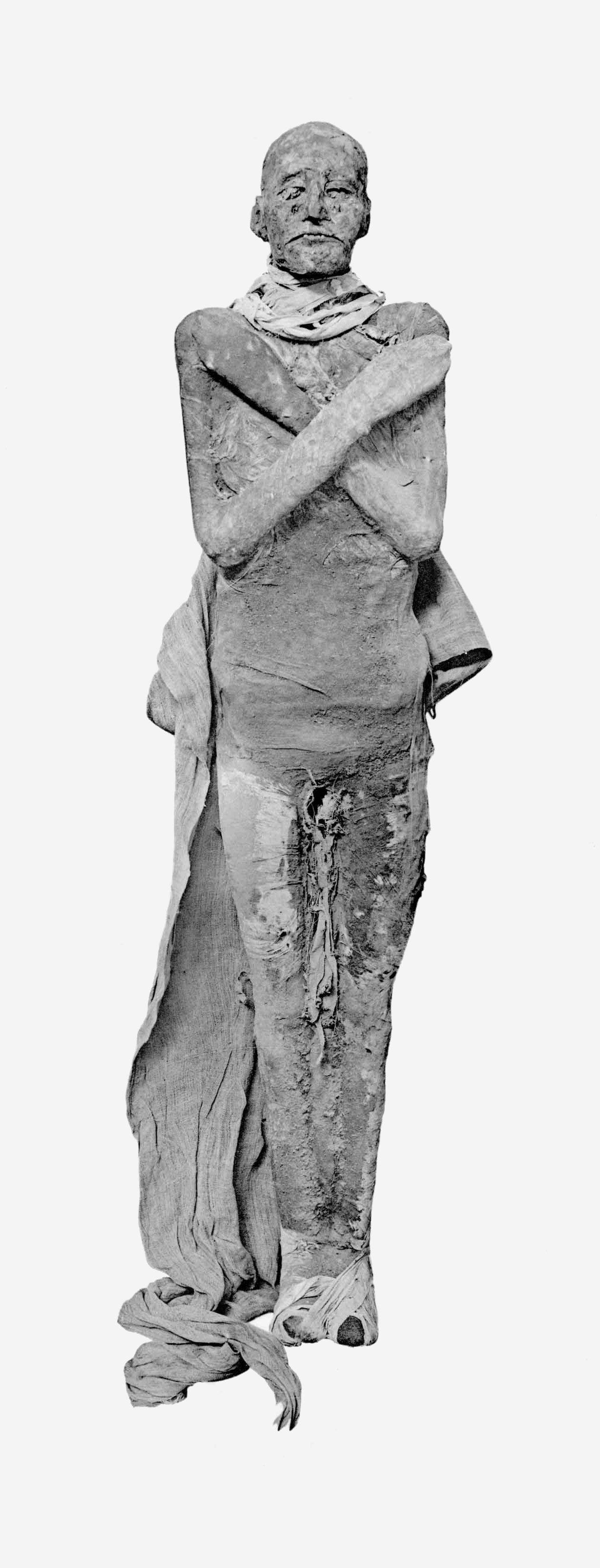 Mummy of pharaoh Ramesses III.